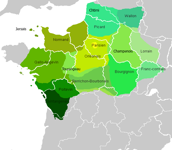 Oil languages: Picard Normand Orléanais Parisien Gallo-Angevin Poitevin Saintangenais Berrichon-Bourbonais Bourgignon Franc-comtais Lorrain Wallon